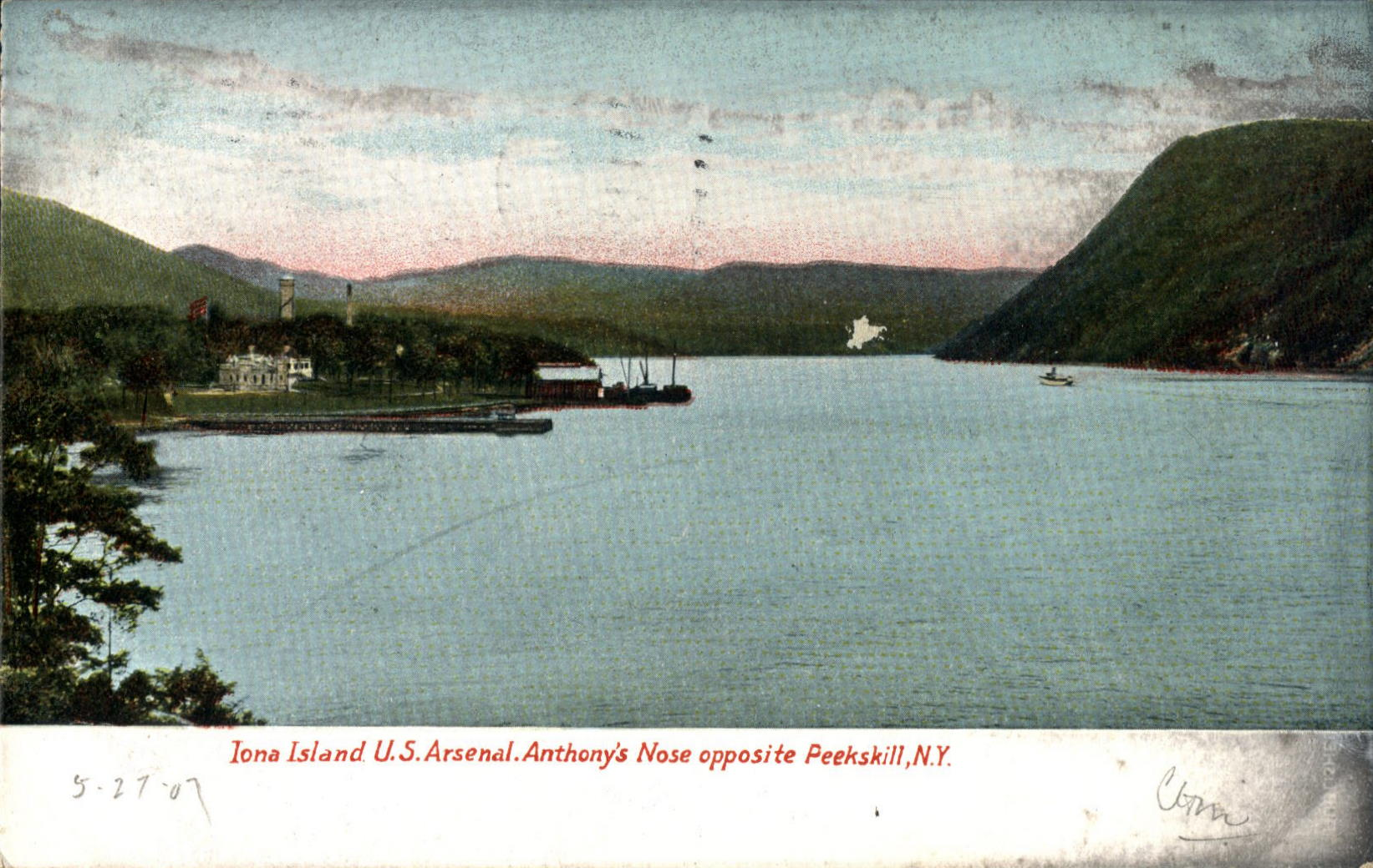 Iona Island, U.S. Arsenal, Anthony's Nose. Peekskill, New York